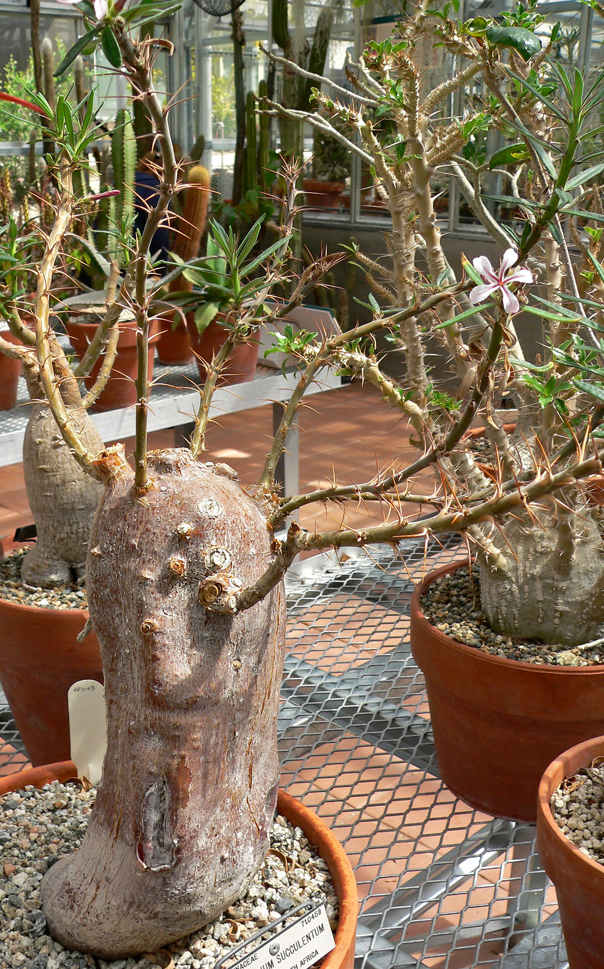 Pachypodium succulentum at the University of California Botanical Garden, Berkeley, California